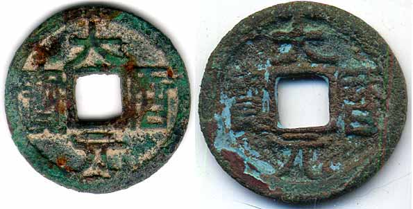 TANG DYNASTY 618 - 907 AD H 14 . 1 Kai Yuan, Early Wu de Kai Yuan, with Jing (Central part of Kai) above inner rim. Grey color from high tin content. 24.6mm, 4.176g HG283/6, Doo-Ty1 AVF H 14 . 101 Qian Yuan zhong bao Emp. Su Zong, 756-62 AD, 10 Cash, minted 758-59 AD, 29.3mm, about 7-8.7gm, salvage from a ship found in a Shaanxi river. Some sellers still asking $35 for this one. S352 Never circulated, nicely cleaned, they will retone in time. Average weight pieces $6 Each/5+; Single 8+ gm. specimens: H 14 . 105b Qian Yuan zhong bao Value 50, light version 10.5gm Scarcer than heavy version VF H 14 . 130 Da Li yuan bao Emp. Dai Zong, 766-79 Cast in Kuche, Xinjiang. 23mm, 3.266g FFD703 H303/5 VF, green H 14 . 133A Jian Zhong tong bao Emp. De Zong, 780-83 Small characters variety. Cast in Kuche, Xinjiang. 22mm, 2.696g FD705 H305/1 F, rough H 14 . 133 Jian Zhong tong bao Emp. De Zong, 780-83 Large characters variety. Cast in Kuche, Xinjiang. 22mm, 2.696g FFD704 H305/3 AVF H 14 . 140 De Yi yuan bao Tang Rebel Shi Siming, 758-61 36 mm, 12.146g Plain reverse, scarcer than with crescent HG315/1, S407v, [FN$876 presumably for commonere crescent type] VF / rough reverse H 14 . 147 Shun Tian yuan bao Tang Rebel Shi Siming, 758-61 Rev: crescent above 36.0 mm, 18.030 g FFD752, S409, HG318/1, [FN$146] AVF .